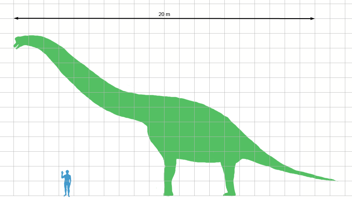 Size comparison of Sauroposeidon proteles to a human. Each grid segment represents 1 square meter.